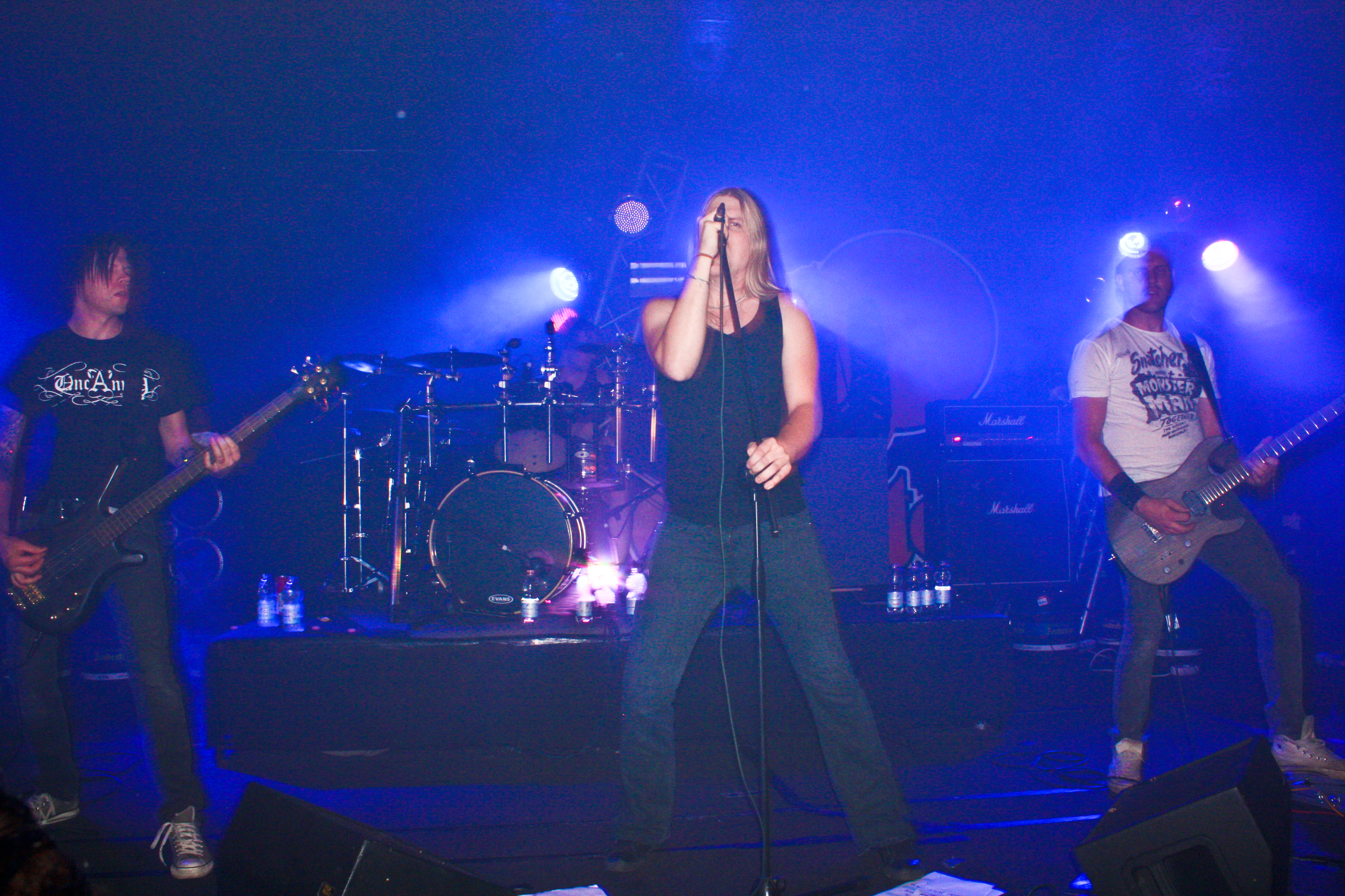 October Tide, live